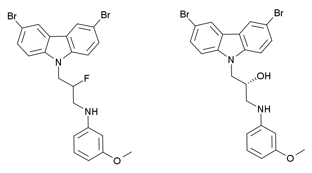 Structures of P7C3A20 and (R)-P7C3-OMe